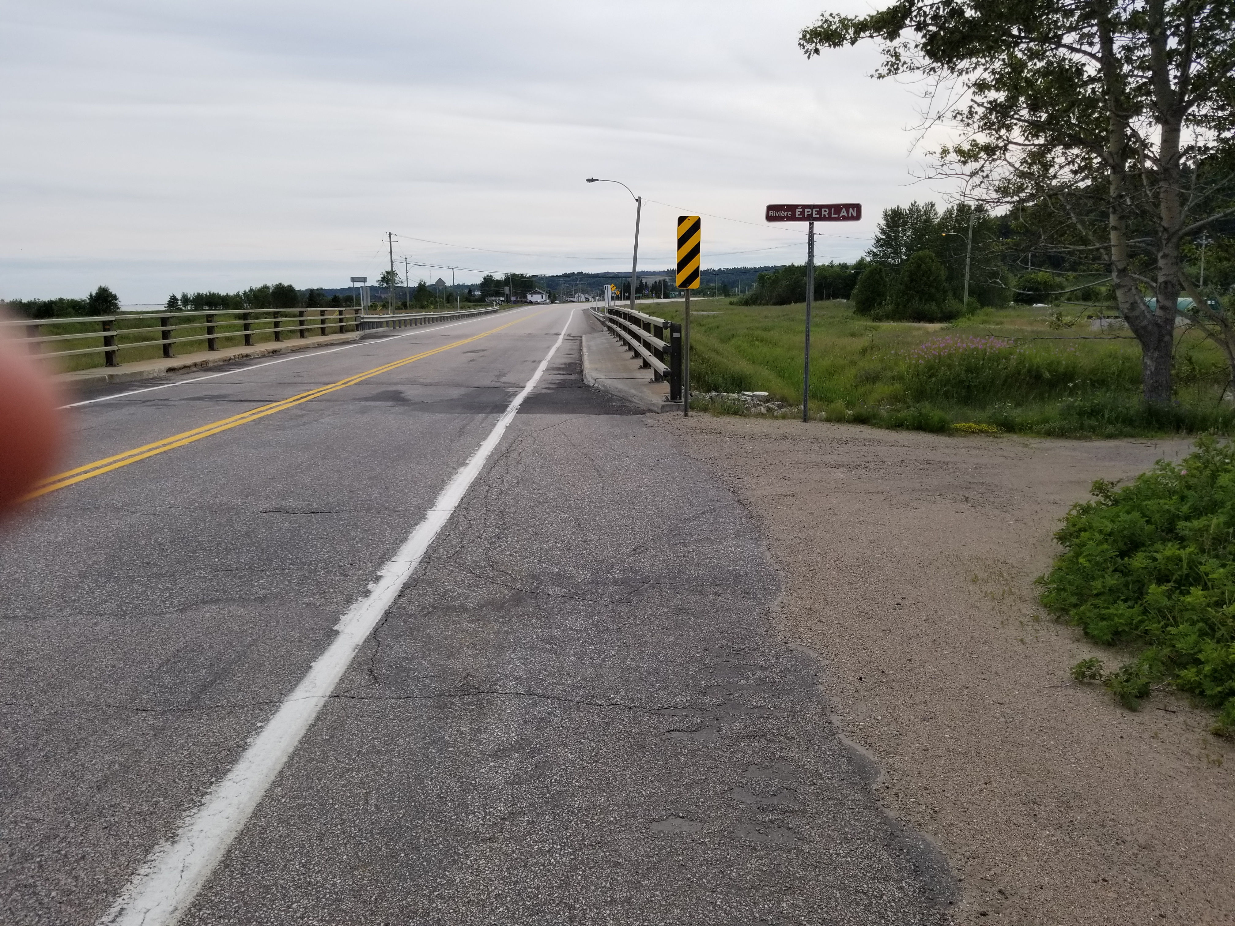 Highway 138 bridge spanning the Éperlan River in Longue-Rive (QC). Photo of July 22, 2018.